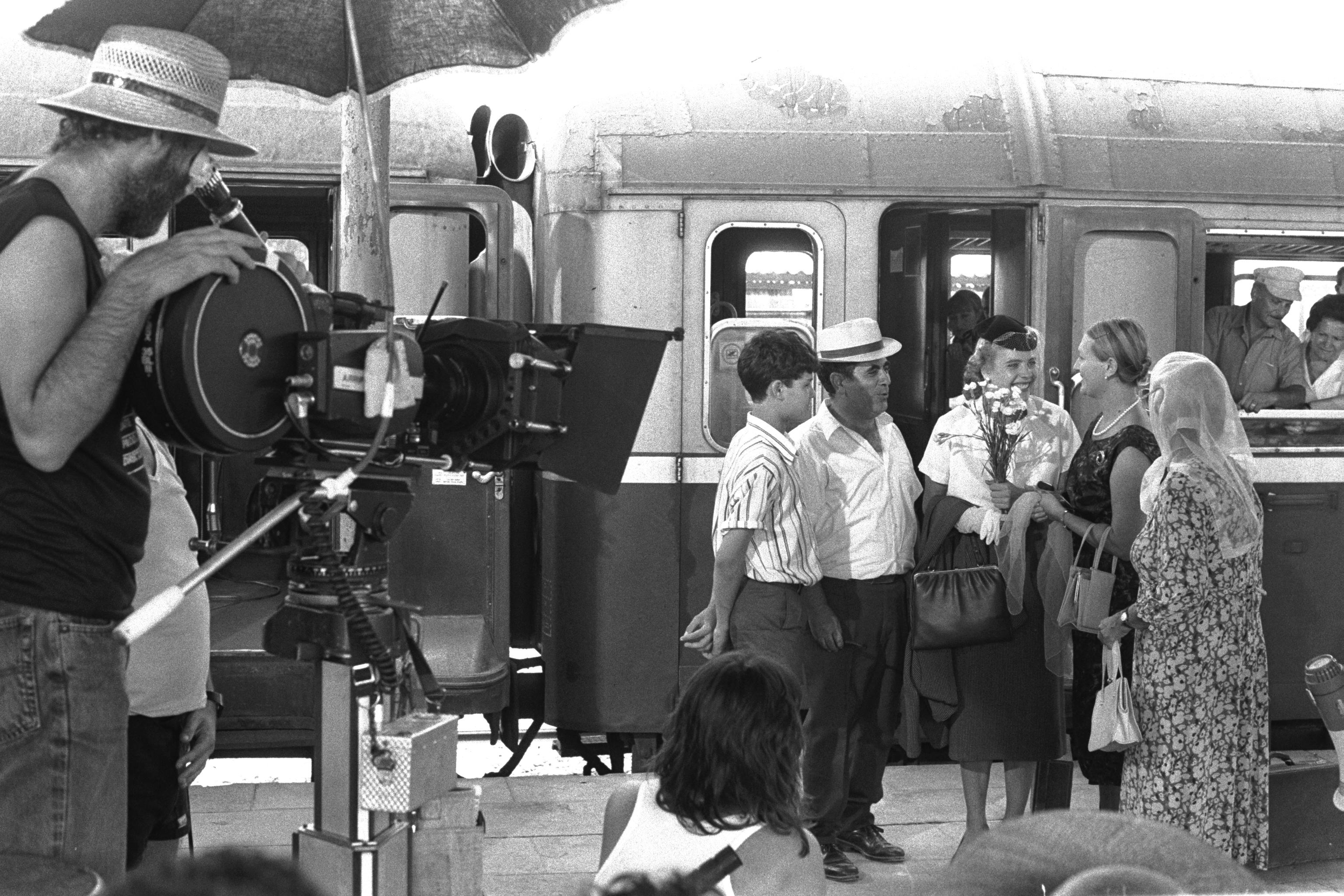 Director Boaz Davidson looks through a Arriflex 35 BL camera at the old railway station in Jerusalem during a scene from the film “Alex Is Lovesick.”